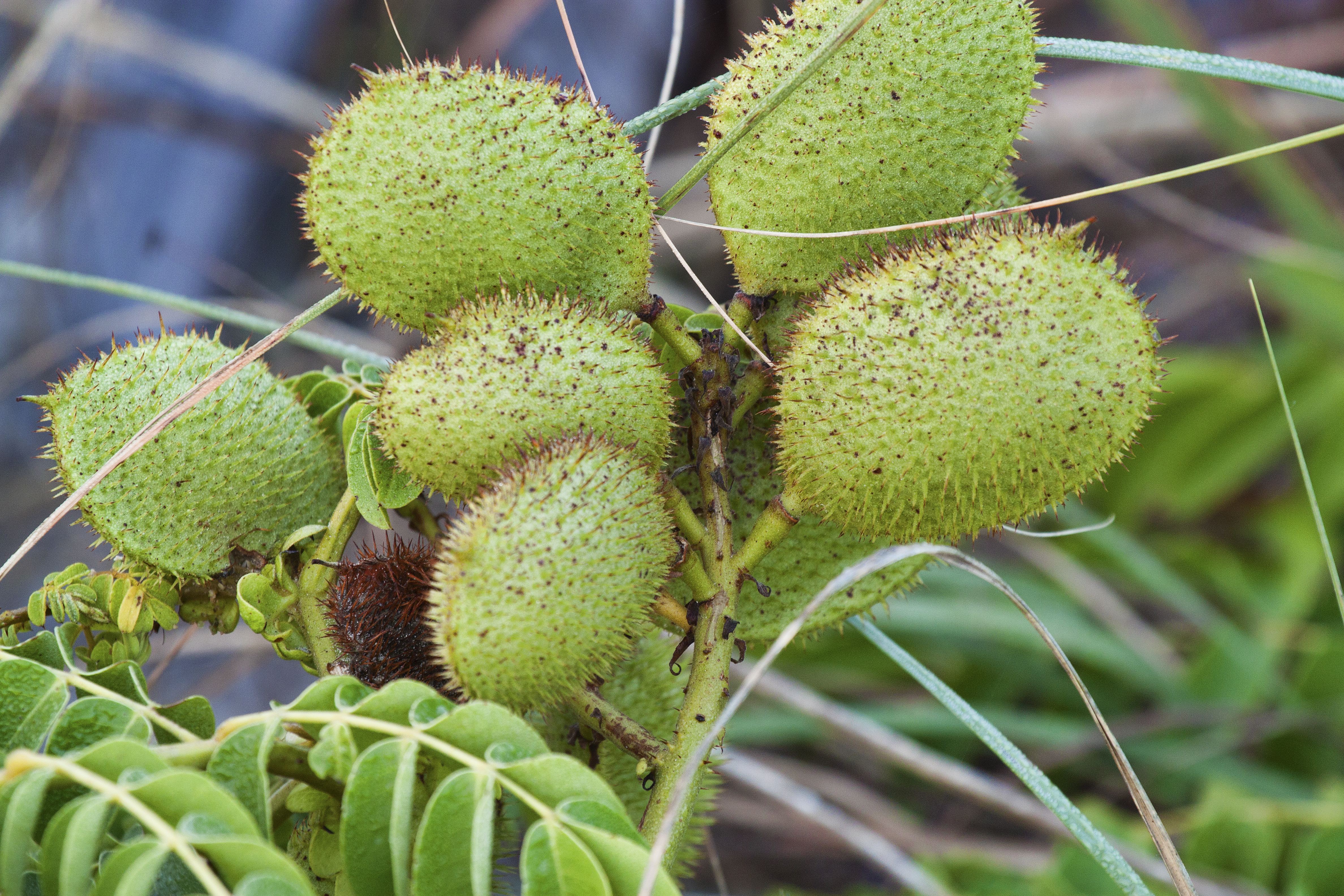 Image of a clump of unripe seed pods of the nickernut plant. Images were shot in the dunes of Port Canaveral Beach, Florida.